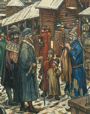 fragment of a picture "Novgorod Marketplace", a painting by Appolinary Vasnetsov (1856-1933).